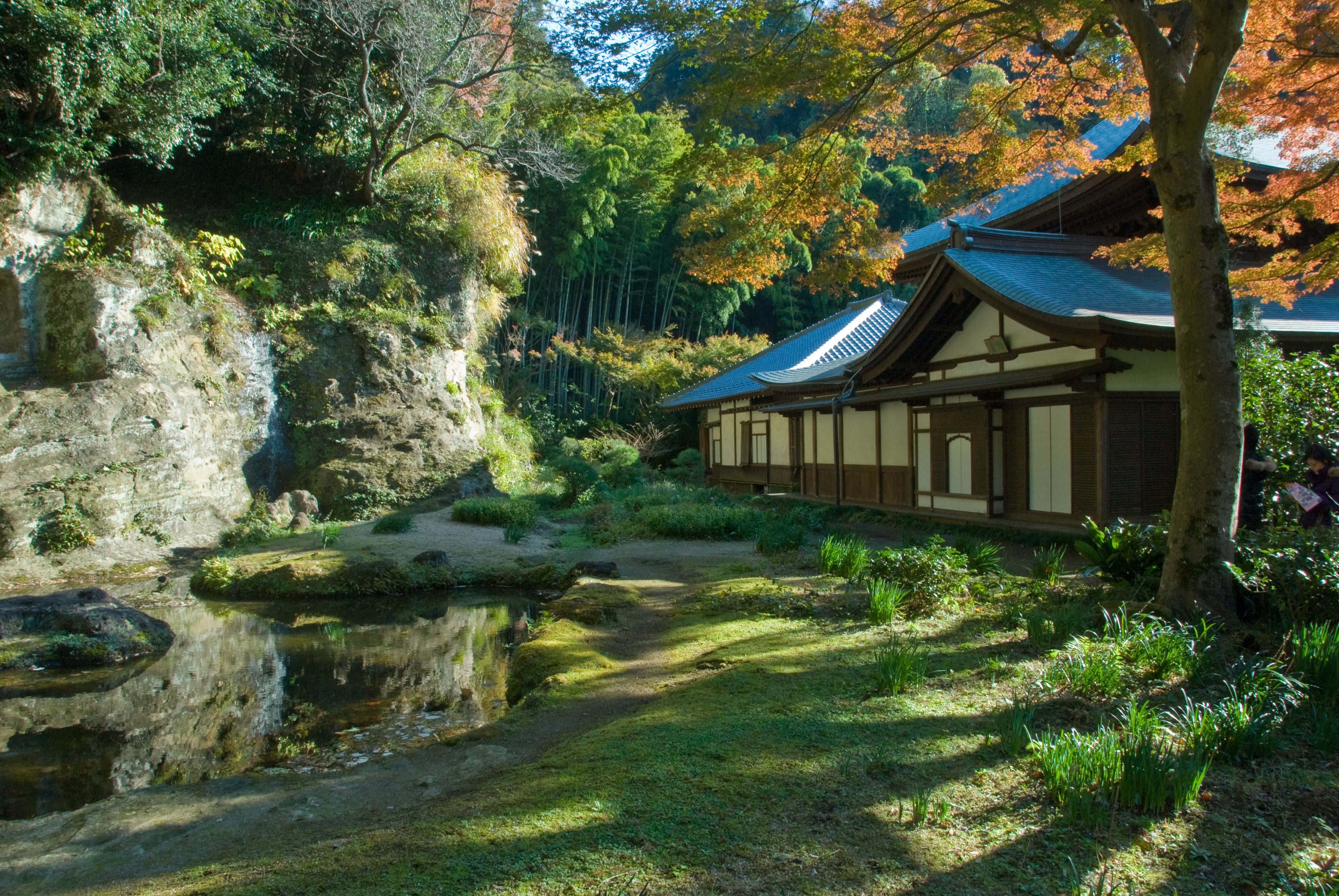 The rear of the Butsuden at Zuisen-ji in Kamakura